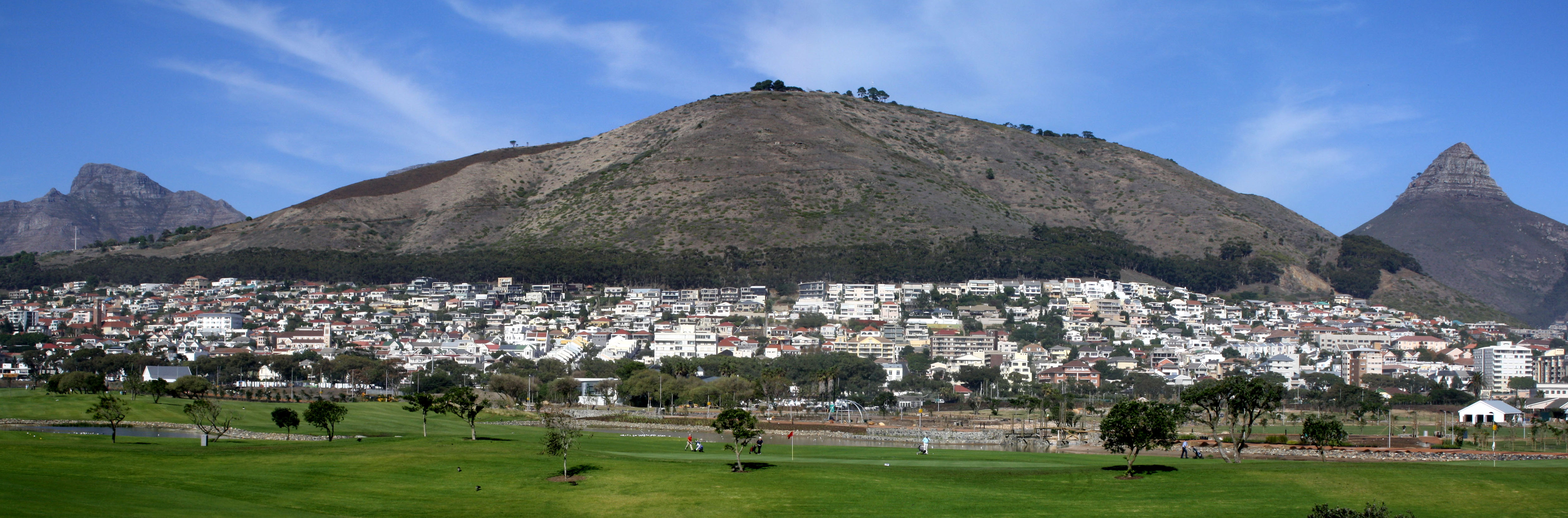 Green Point in Cape Town, South Africa with Devil's Peak, Signal Hill and Lion's Head in the background. Taken 2010-05-15. Photo by Winstonza talk